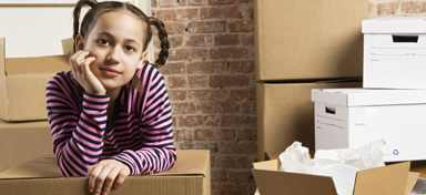 Whether it’s your first move or your tenth, it’s never easy. There is so much to do and so many things to worry about that it can feel overwhelming. From the initial stages of planning to packing and unpacking to dealing with your children’s reactions and emotions, you have a lot to think about. The information in this section provides advice on how to take control of all aspects of your move, making it easier for your children and you!